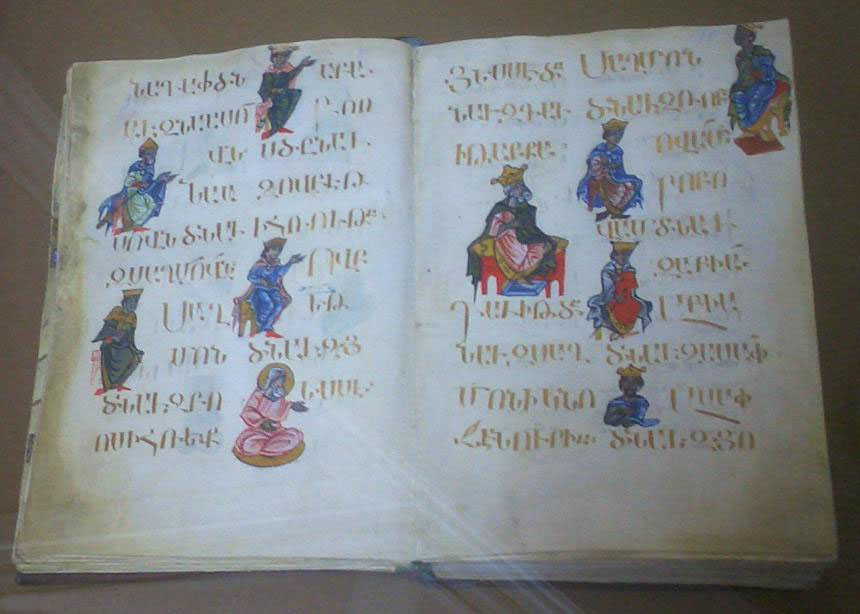 Armenian illuminated manuscript. Painted in 1337 by Avag in Sultania/Tabriz.